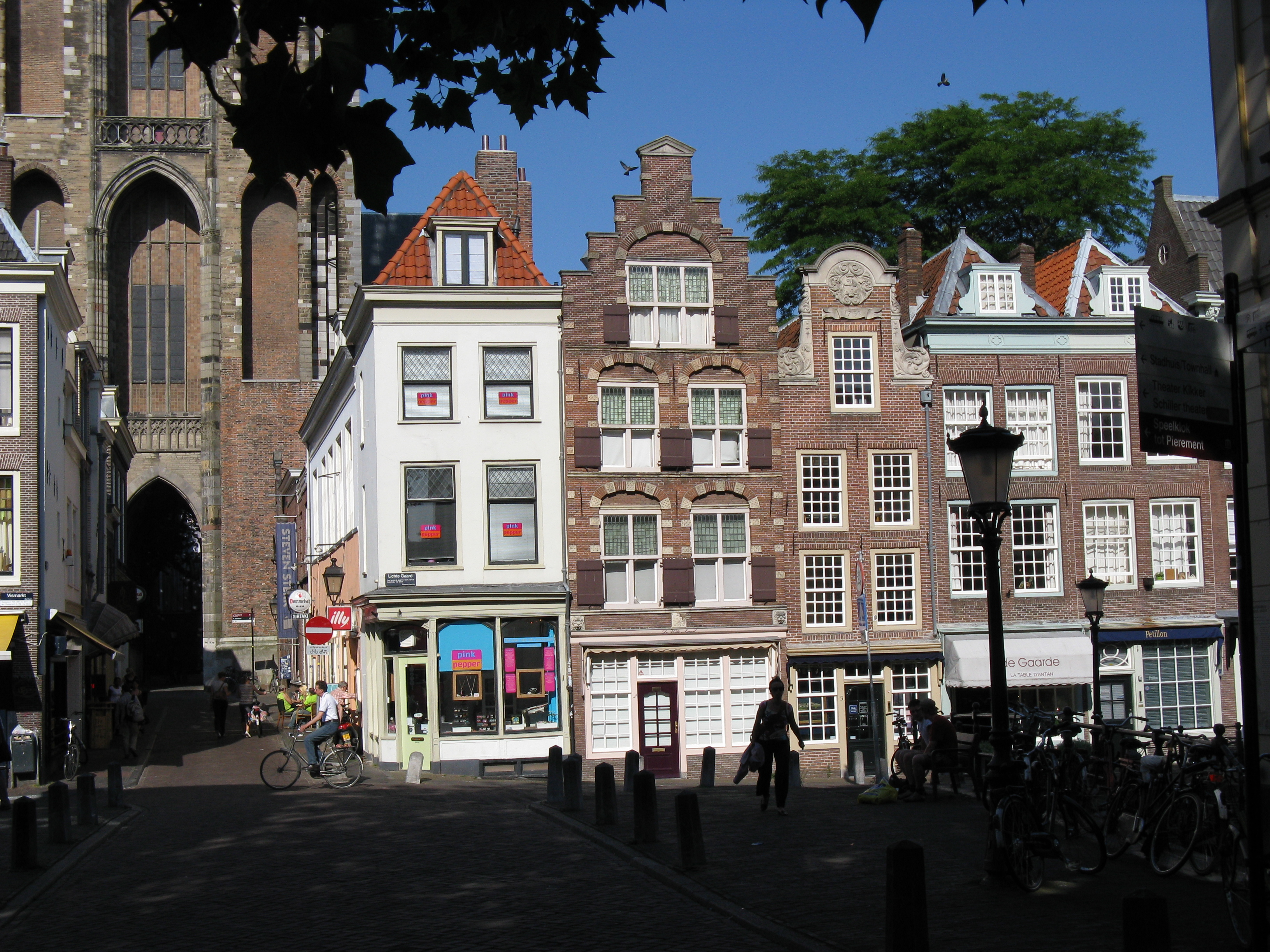 utrecht